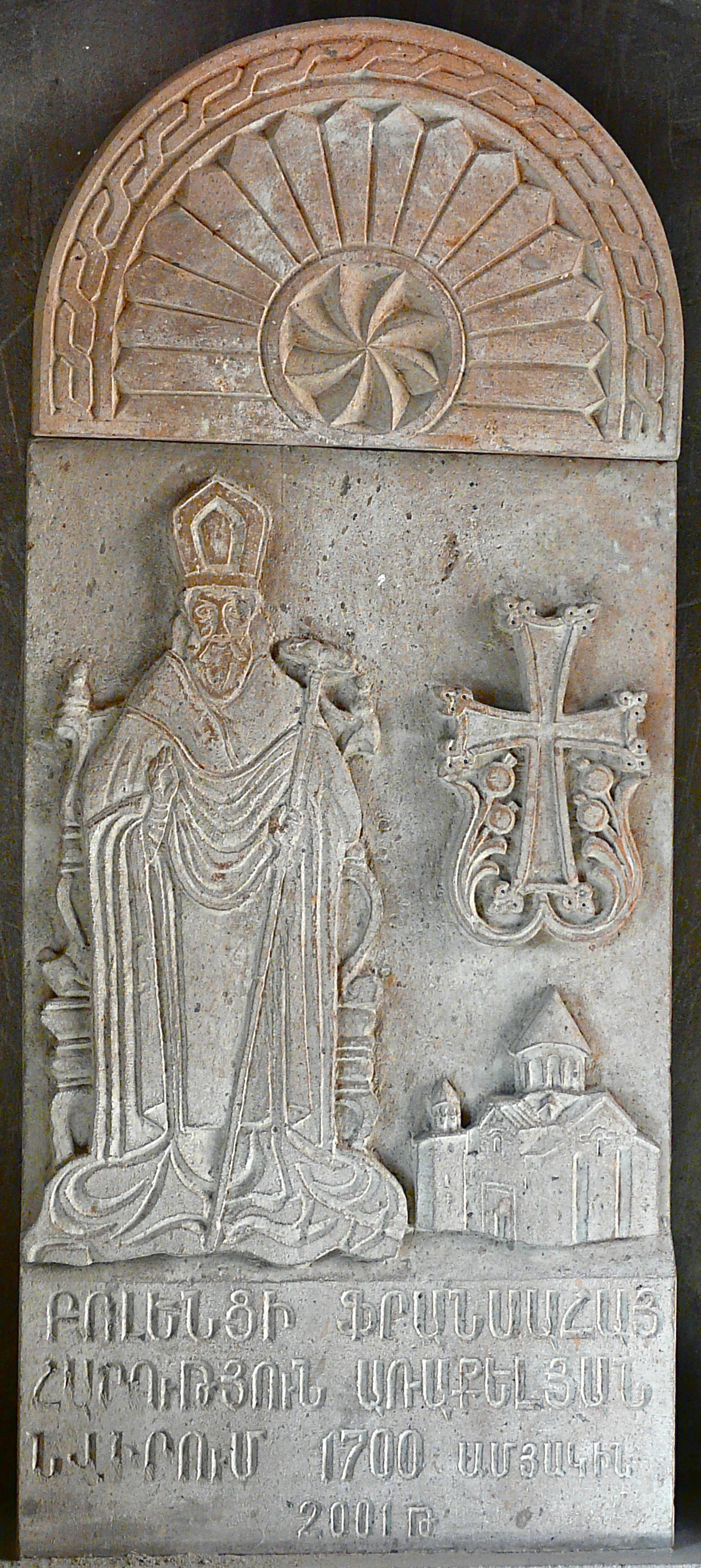 Grigor Lusavorich, Khor Virap, Armenia